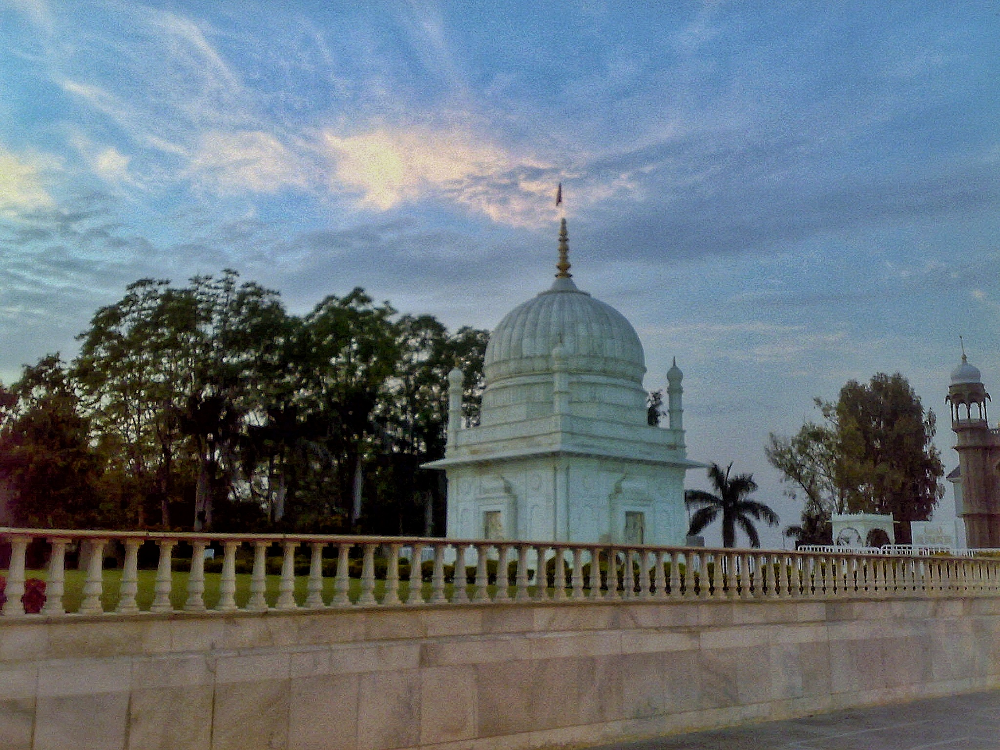 Mausoleum of Fakhr al-Din Shaheed, an early leader of Fatimid Ismaili movement in India